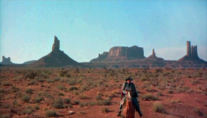 The Searchers is a 1956 Western film directed by John Ford which tells the story of a man who spends years looking for his niece who was taken by Indians. This image is a screenshot from a public domain trailer for the film. Trailers for movies released before 1964 are in the Public Domain because they were never separately copyrighted.